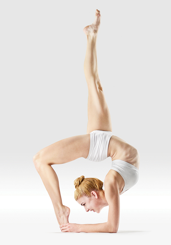 bound inverted staff pose